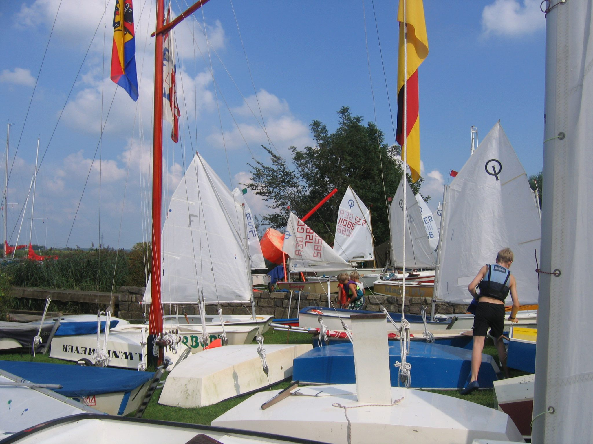 Optimist-Class ships on trainingweek in Friedrichstadt / Germany 2007